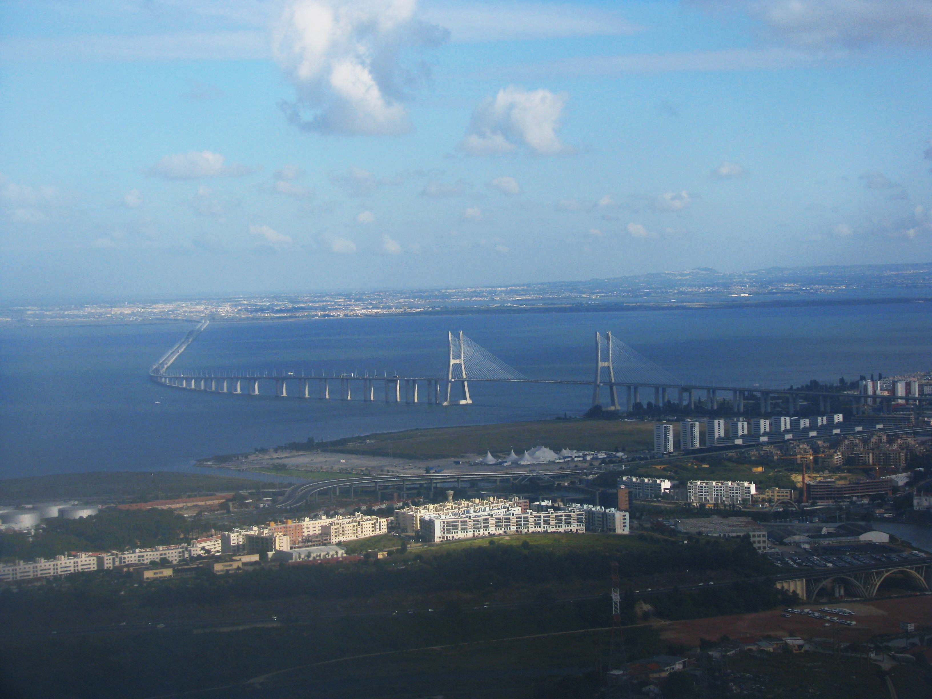 Vasco da Gama Bridge